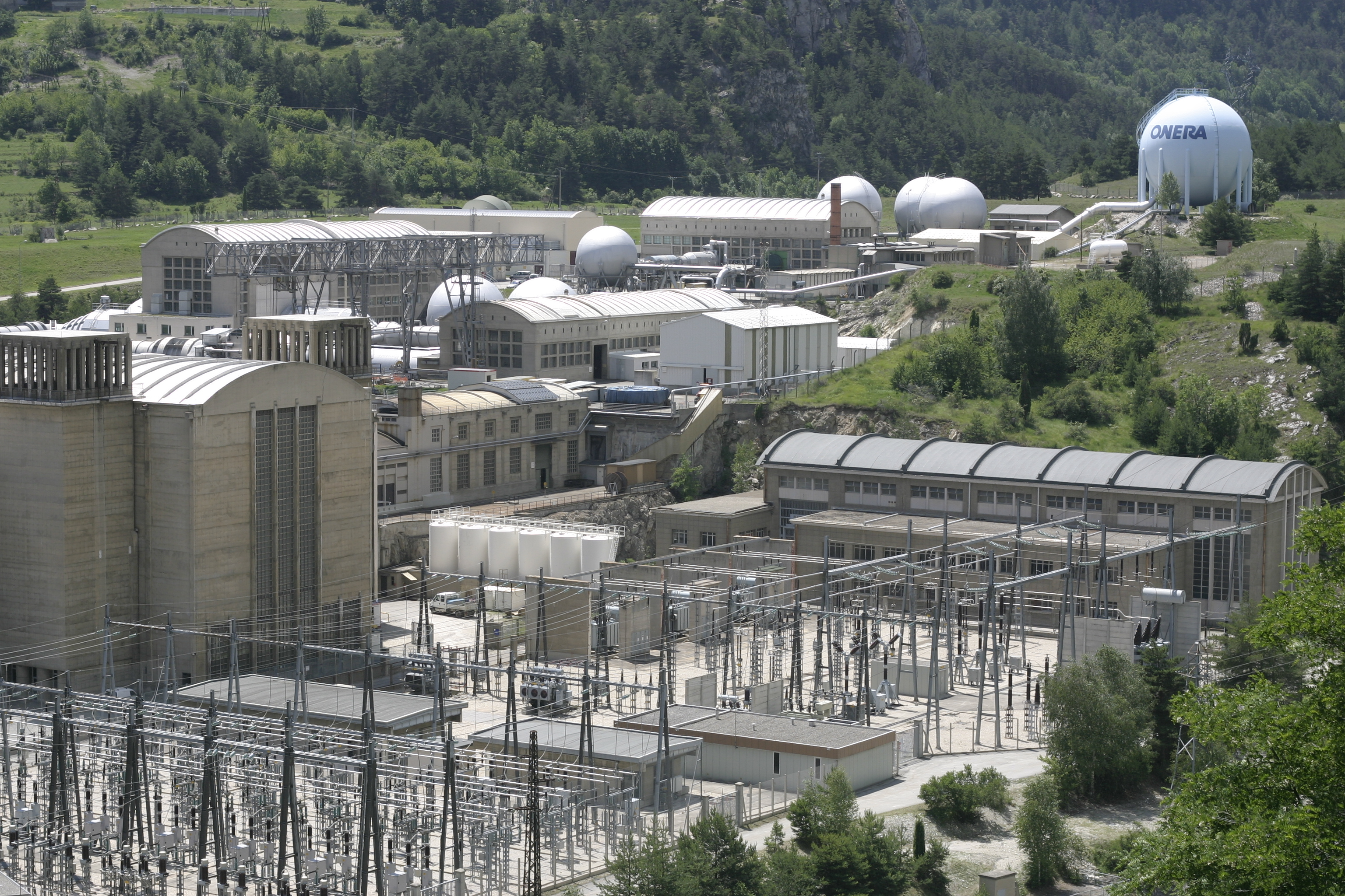 A Modane-Avrieux centre of the French ONERA (National Office of Aerospatial Studies and Research).